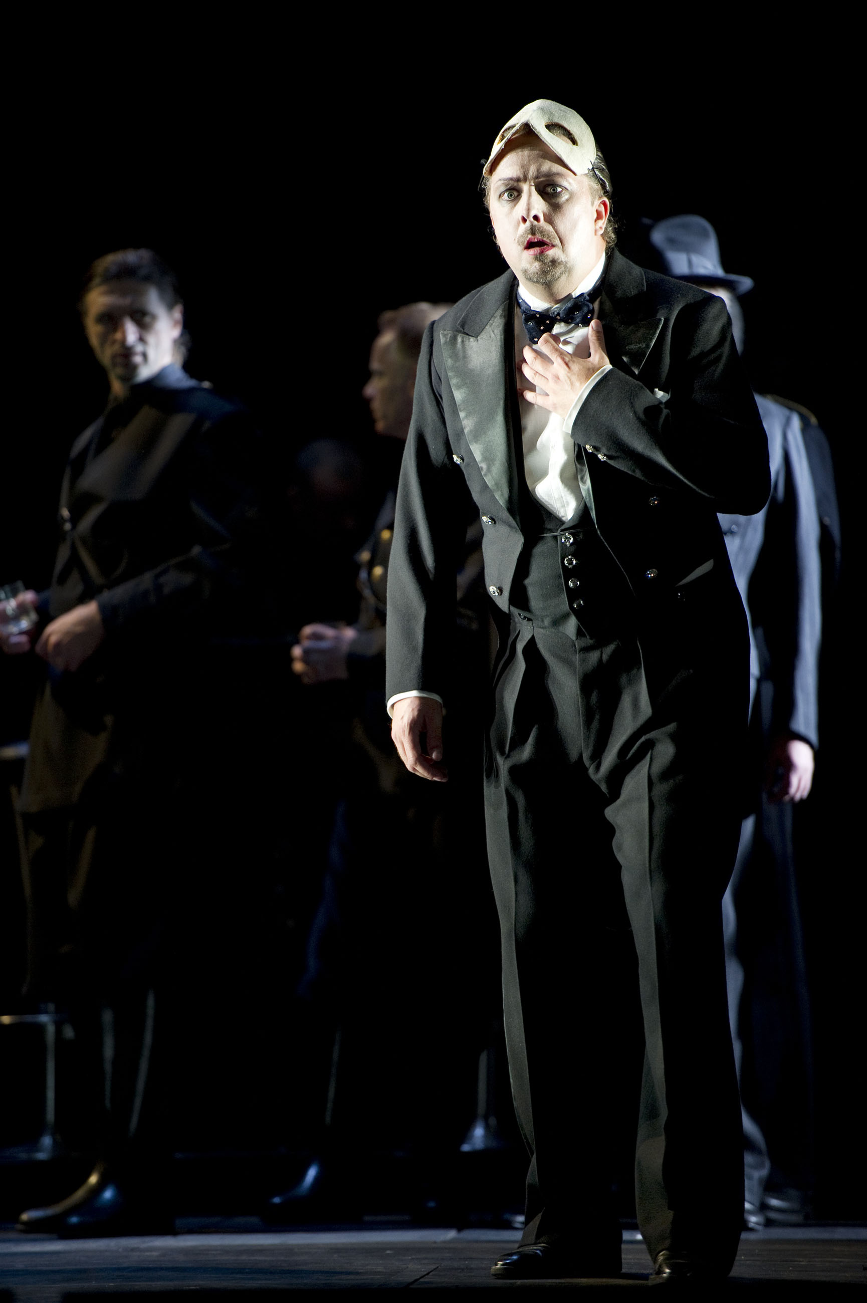 Jesper Taube in Rigoletto 2010 at the Royal Swedish Opera